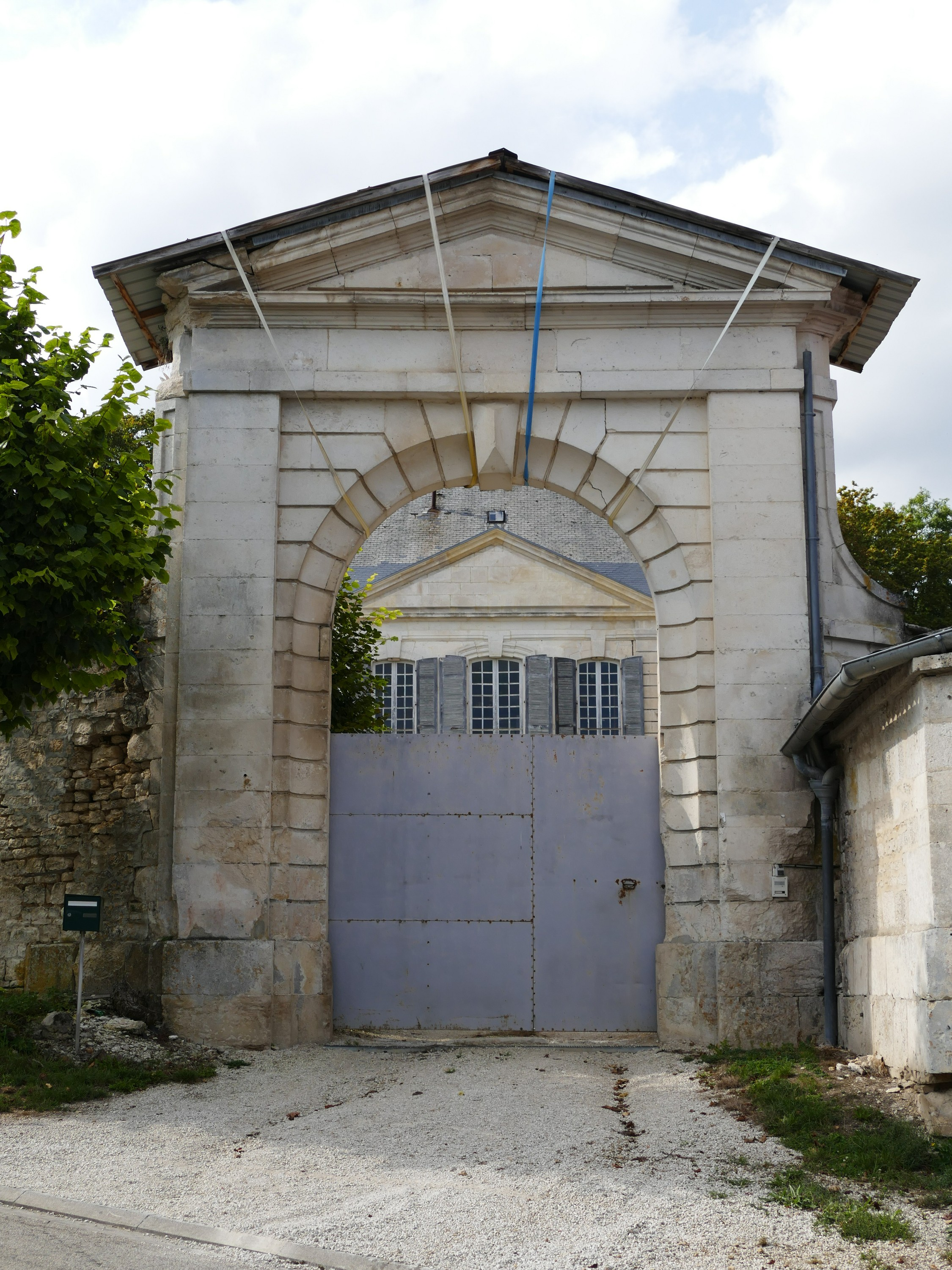 Château du clos Saint-Roch in Les Riceys (Aube, Champagne-Ardenne, France).